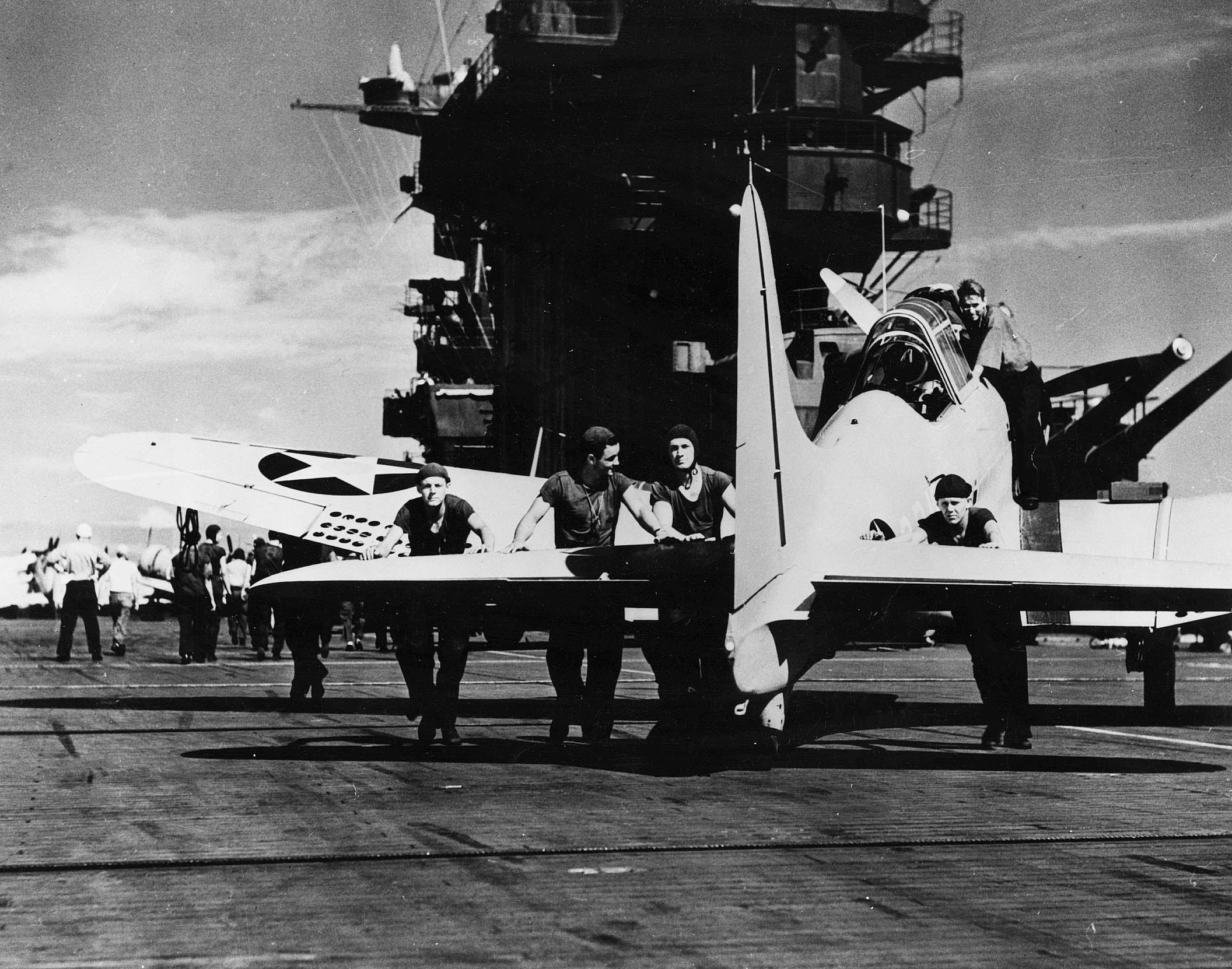 U.S. Navy plane handlers maneuver a Douglas SBD-2 Dauntless of bombing squadron VB-2 into position on the flight deck of the aircraft carrier USS Lexington (CV-2). Note the overall gray light gray paint scheme with white numbering and lettering that was carried on U.S. Navy aircraft for a brief time during 1941. Established as bombing squadron VB-5B in 1934, the squadron was redesignated VB-2 in 1937 and began operating from Lexington. Following the attack on Pearl Harbor, VB-2 participated in the March 1942 raid against Lae and Salamaua and the Battle of the Coral Sea in May 1942.